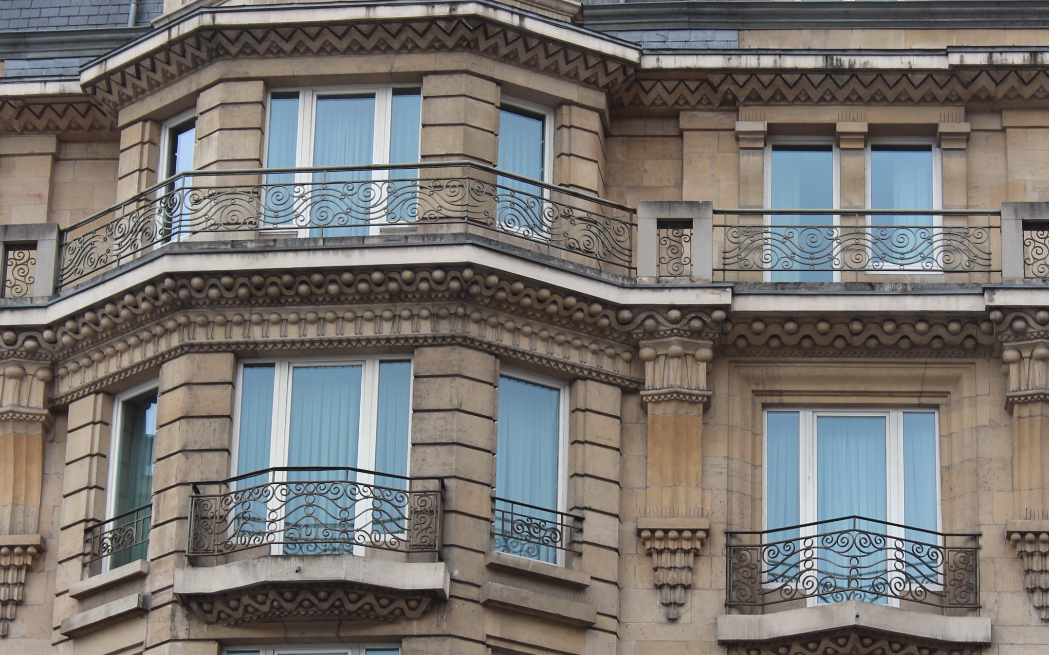 Hotel Alfa in Luxembourg City, Art-deco facade detail. Architect: Léon Bouvart (1883-1933)